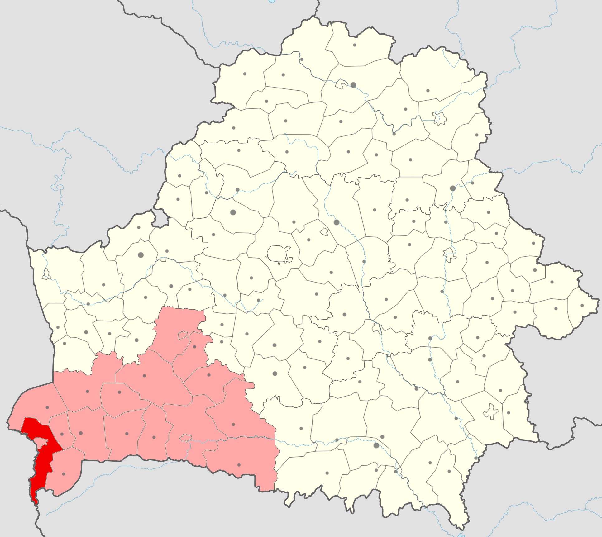 Location of Brescki rajon (red) in Bresckaja voblasć (light red) in Belarus.